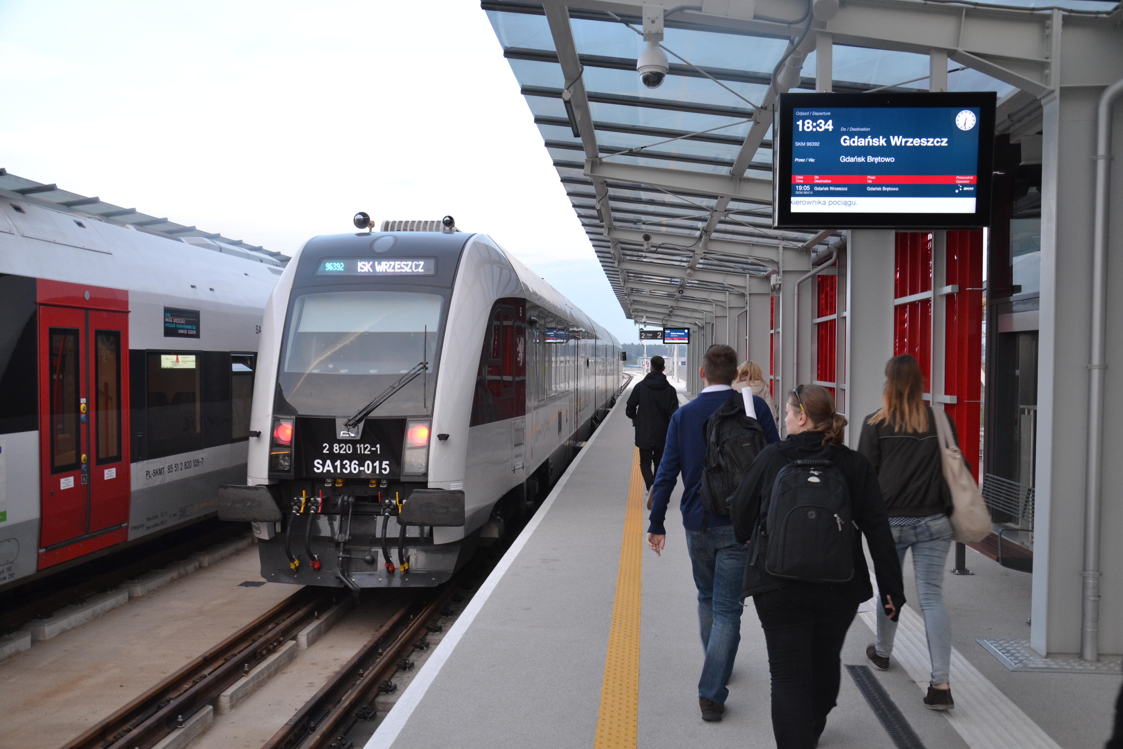 SA136-015 na stacji Gdańsk Port Lotniczy This photo was taken during Railway Wikiexpedition 2015 set up by Wikimedia Polska Association in cooperation with Fundacja Grupy PKP. You can see all photographs in category Wikiekspedycja kolejowa 2015.